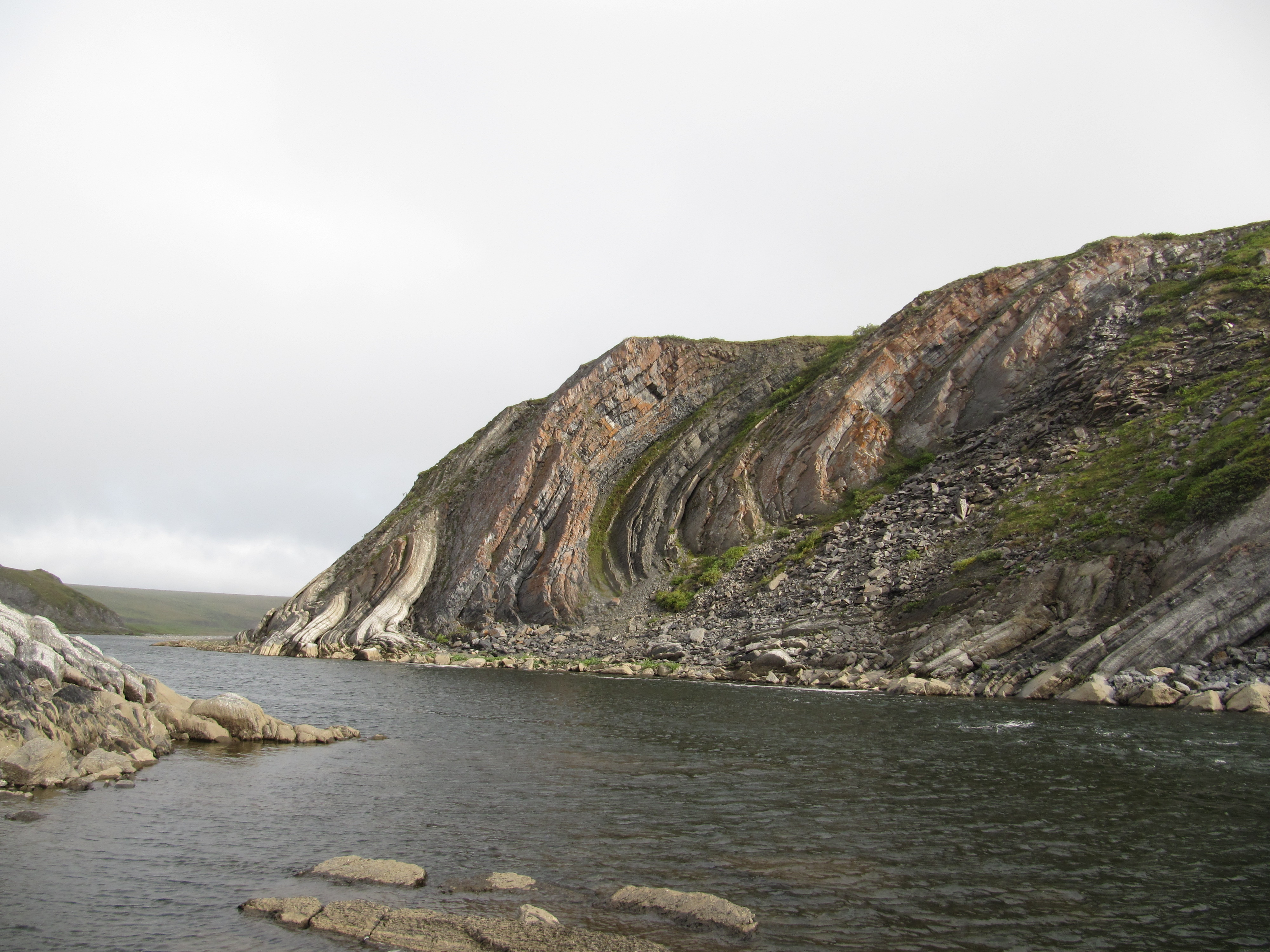 Folded layers of rock of the Pay-Khoy Ridge at Silovayaha River at the northern end of the Ural Mountains in Russia. Credit: Sergey Kotov (distributed via )